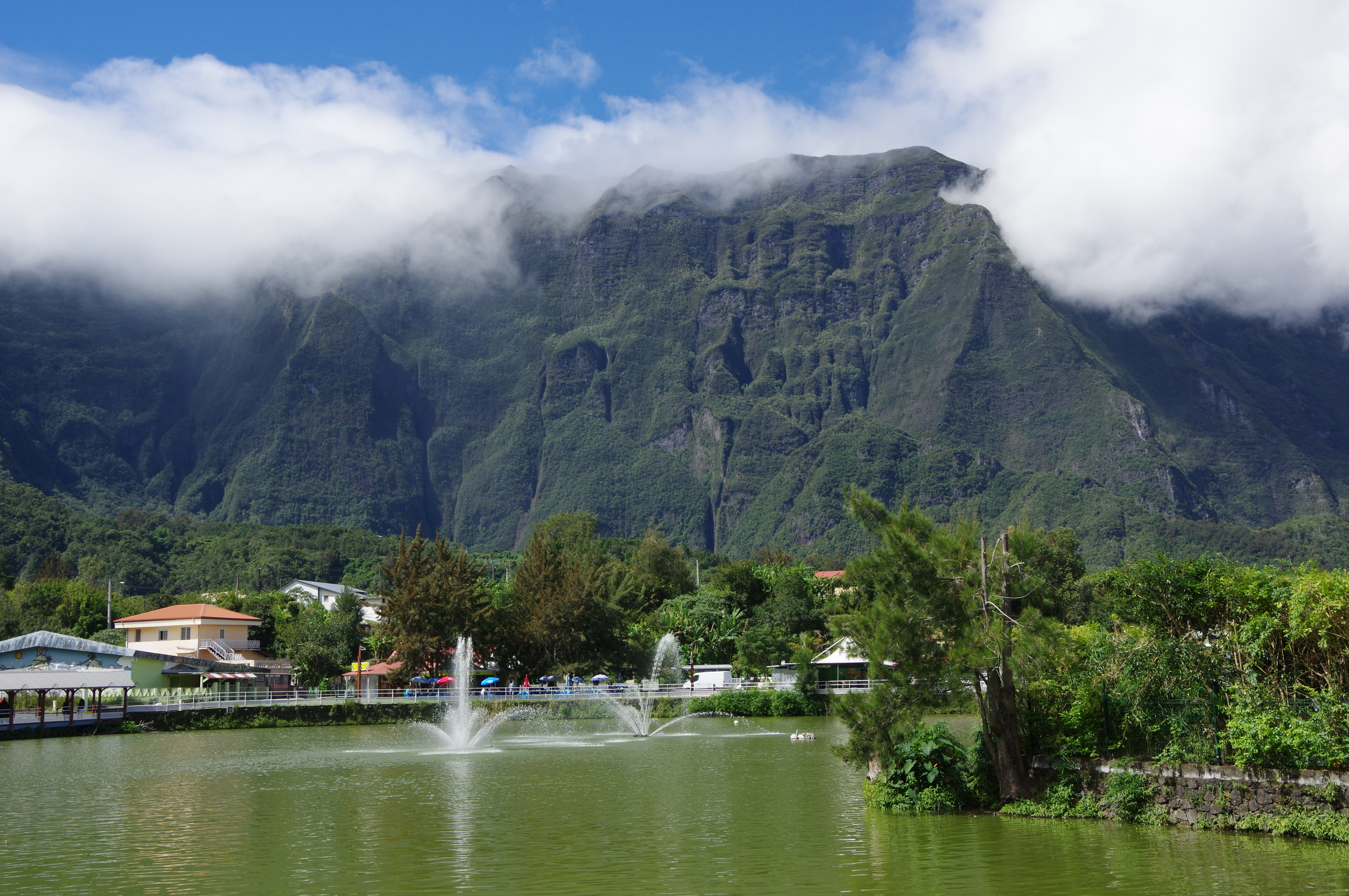 Réunion Island - Vue on the mountain of the Cilaos Cirque from the Mare à Jonc